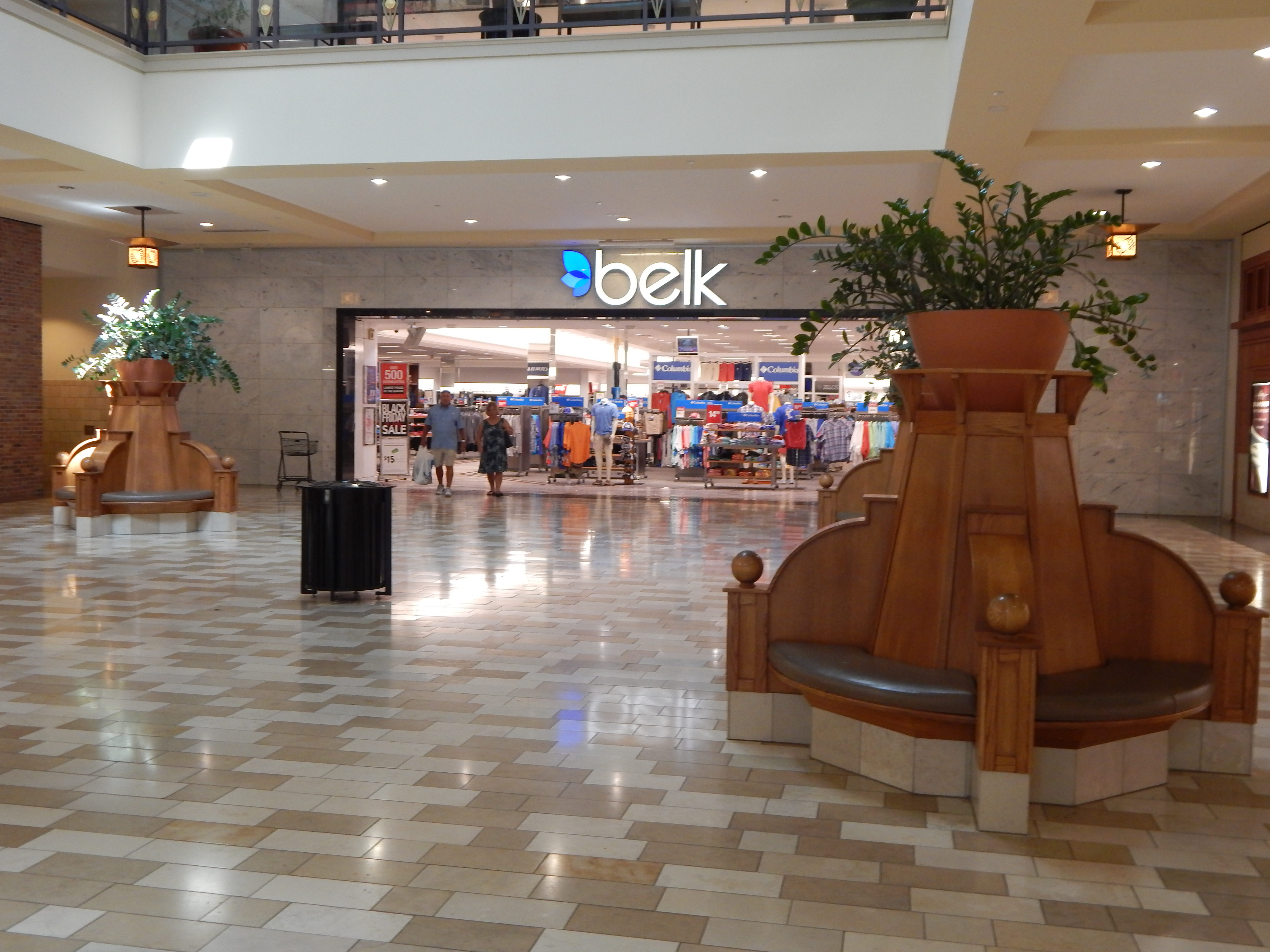 Belk at Mall of Georgia near Atlanta